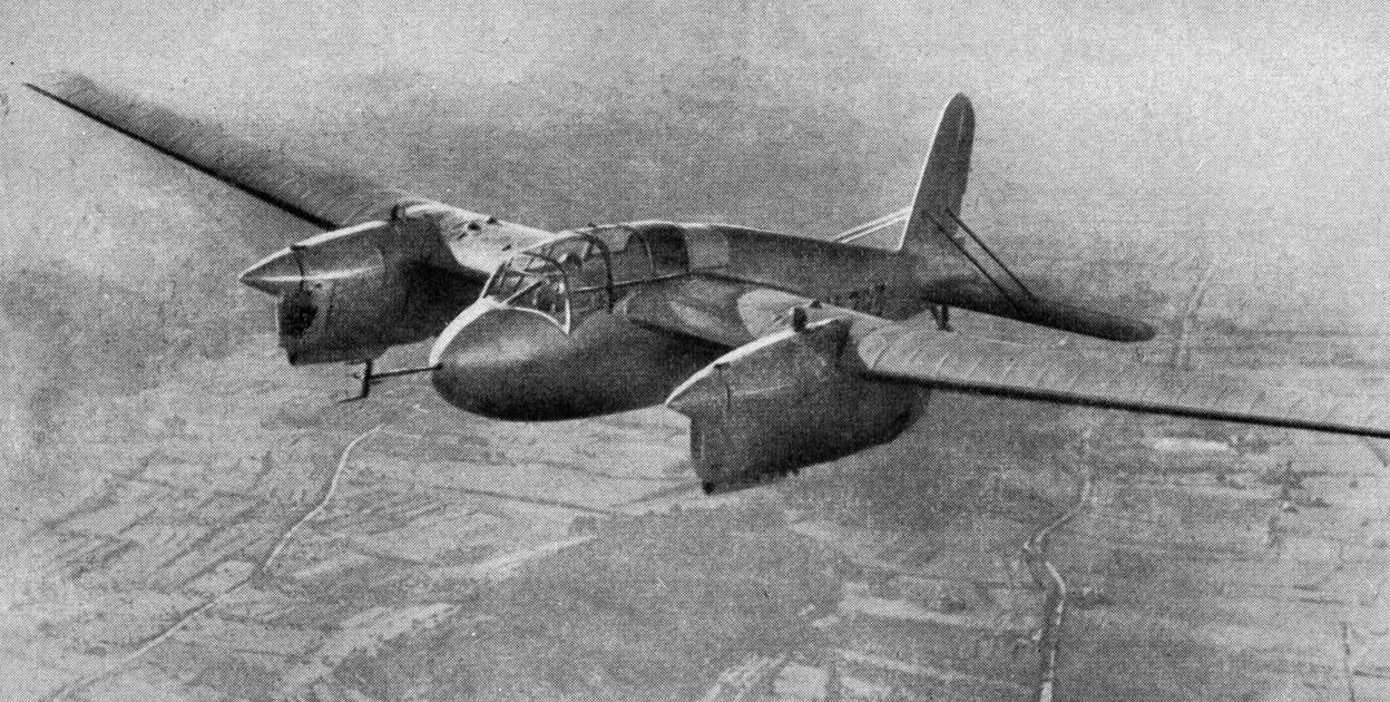 Hanriot 232 left front photo from L'Aerophile March 1940